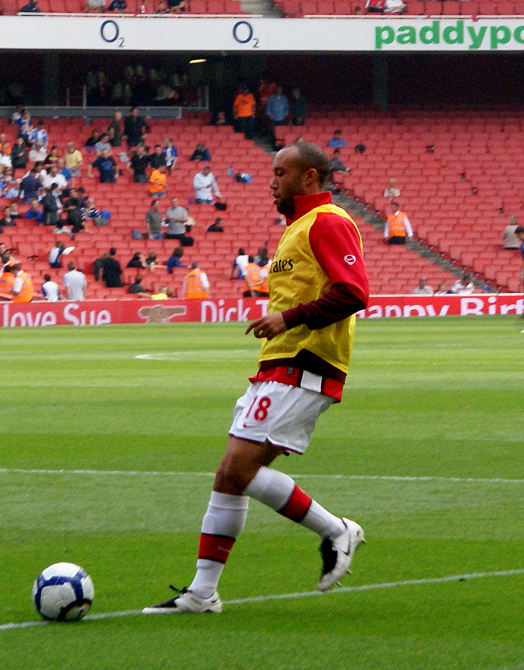 Mikaël Silvestre warming up at half time for Arsenal F.C.